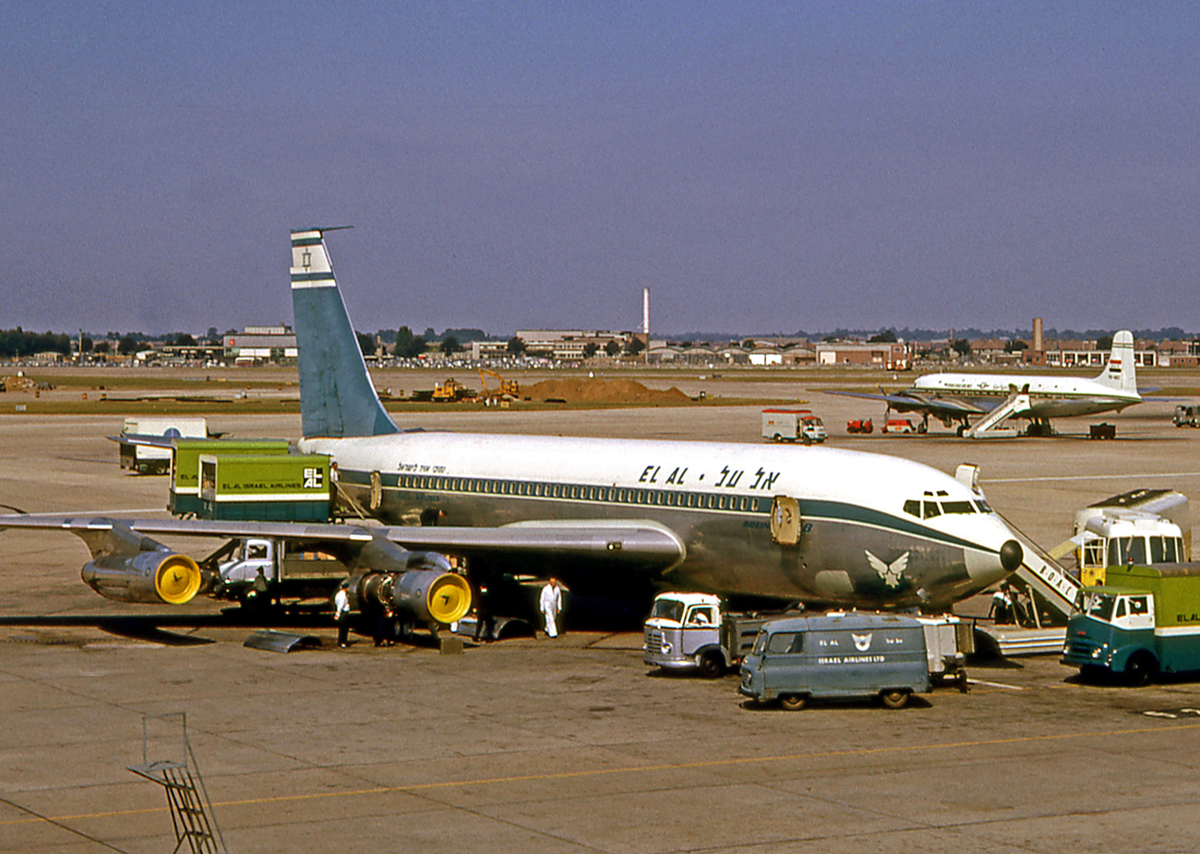 Boeing 720-058B 4X-ABB of El Al at London Heathrow in 1964